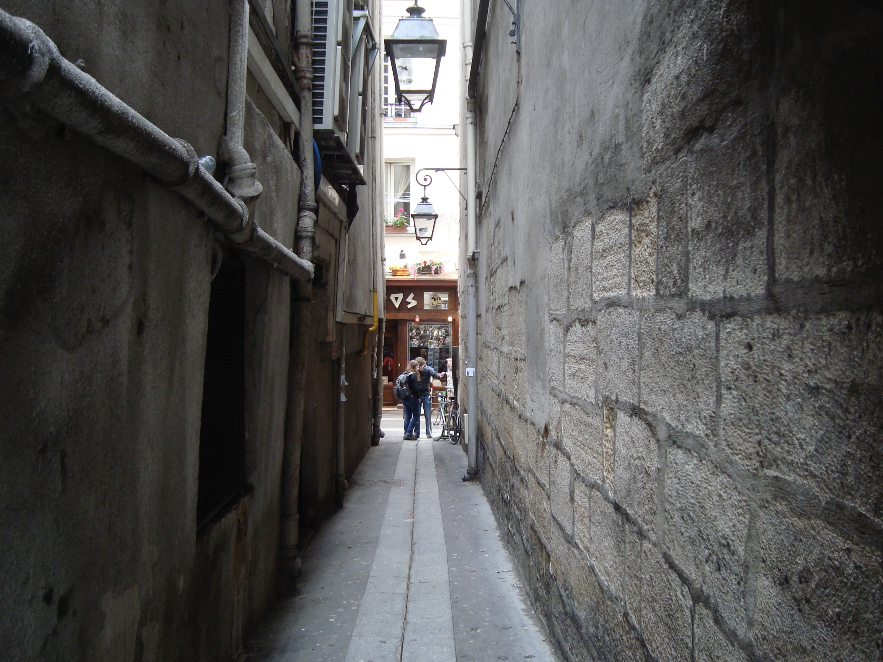 Rue du Chat-qui-Peche in the 5th arrondissement of Paris